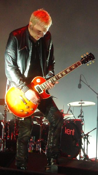 Pic taken in Helsingborg by Agnieszka Szwarc.